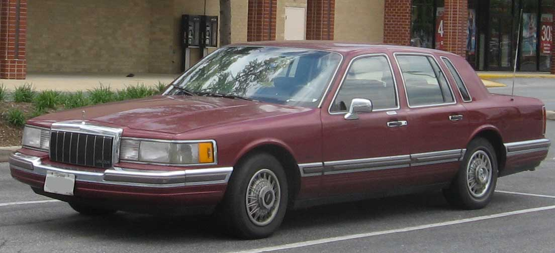 1990-1992 Lincoln Town Car photographed in Waldorf, Maryland, USA.